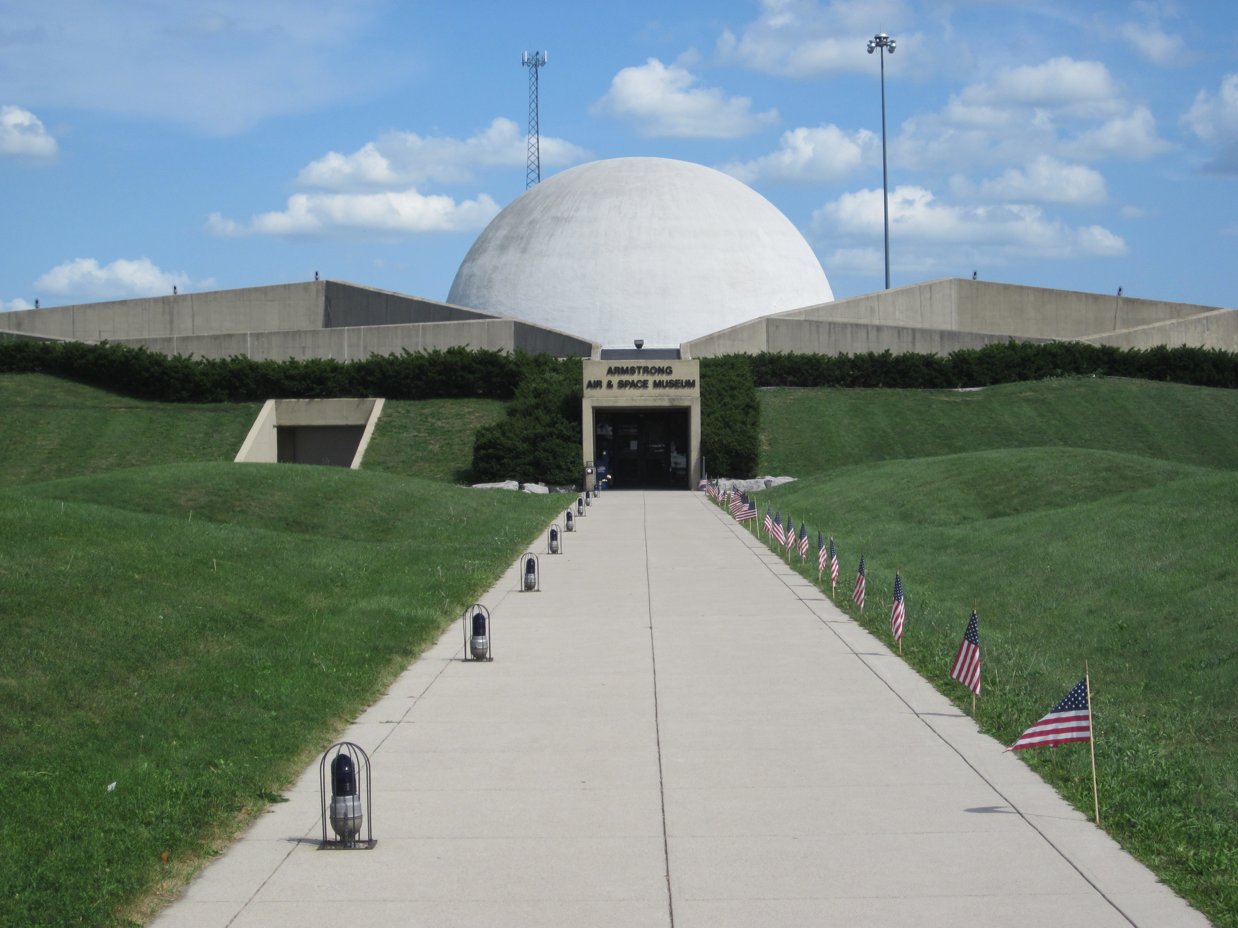 Entrance to the Neil Armstrong Air and Space Museum as of 2012-08-31